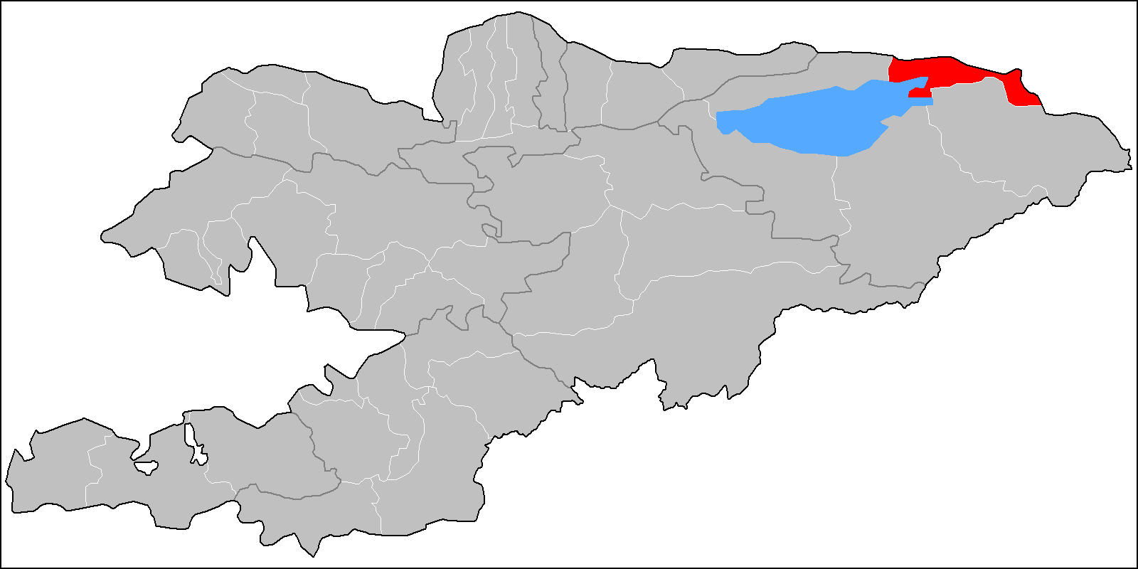 The location of the raion (district) of Tüp in Kyrgyzstan. Based on Image:Kyrgyzstan raions.png